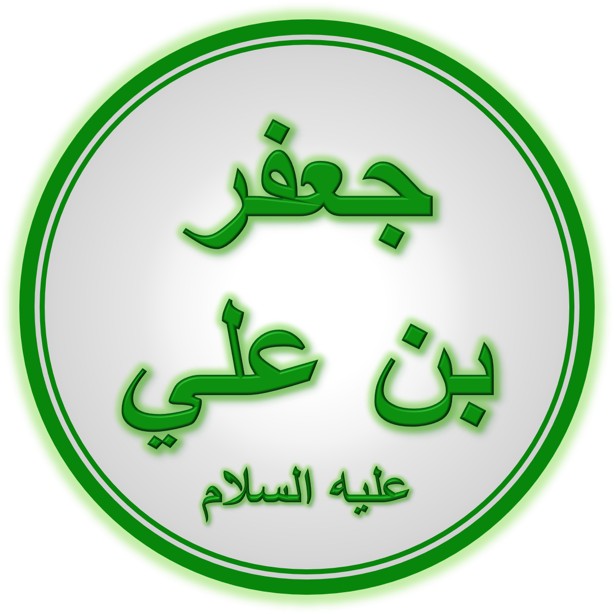 Arabic text with the name of Jafar ibn Ali